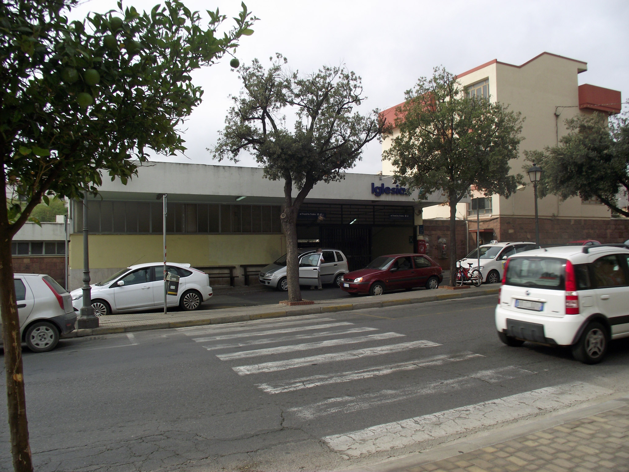 The railway station of Iglesias, Sardinia, Italy seen from via Garibaldi